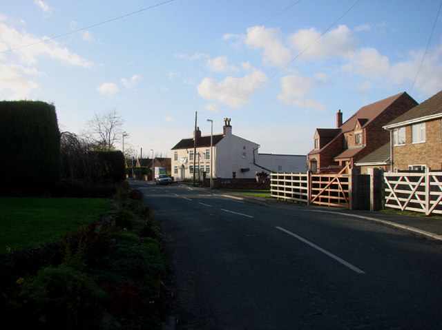 Main Street, Gowdall, East Riding of Yorkshire, England.The Boot and Shoe Public House can be seen on the corner.